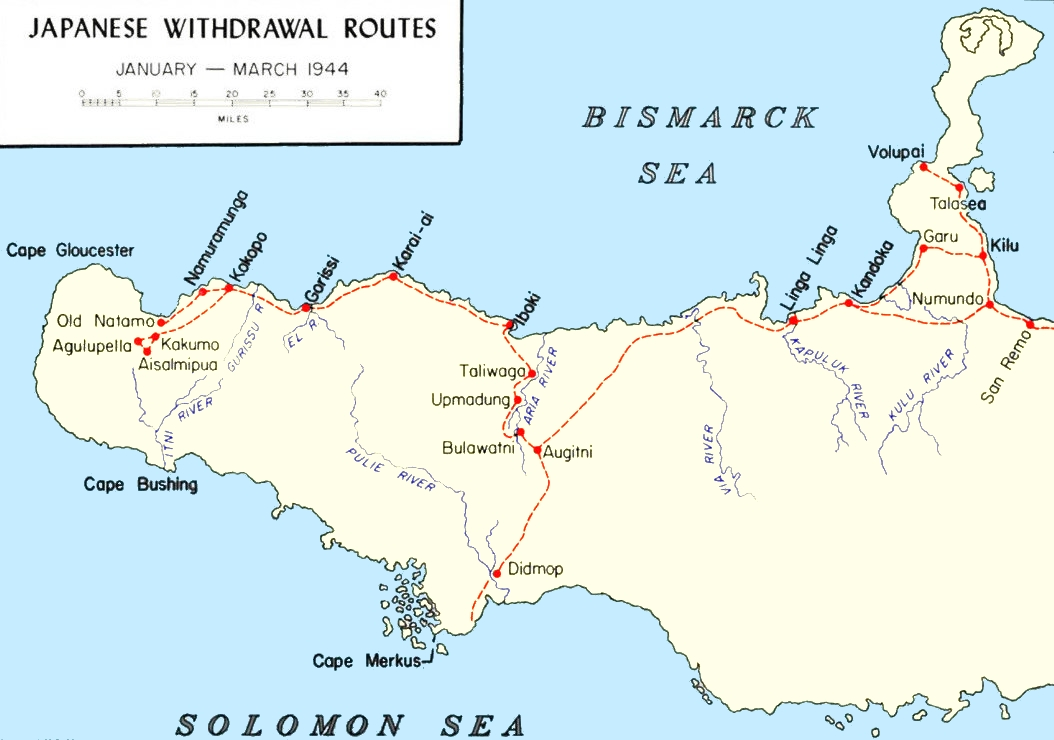 Japanese Withdrawal Routes from western New Britain used during the military campaign there between January and March 1944